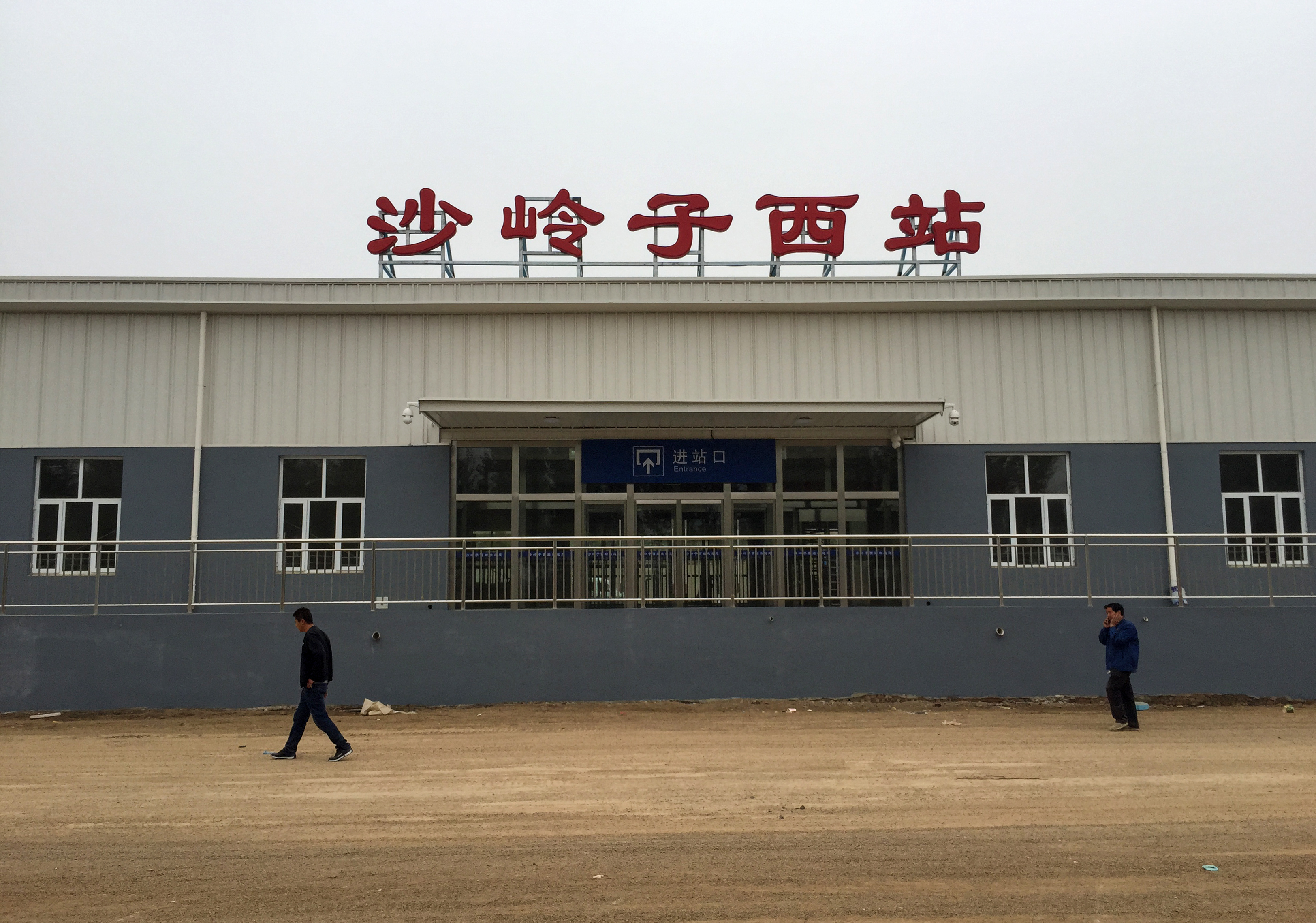 Didn't see any notice about its time of opening. The only known thing is its TMIS code: 10991.